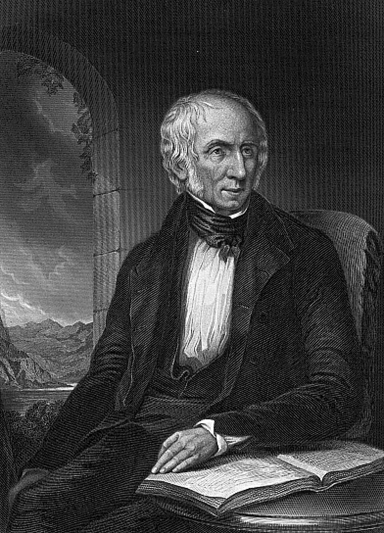 A portrait of William Wordsworth. This is apparently an 1873 reproduction of an 1839 watercolor by Margaret Gillies (1803-1887)